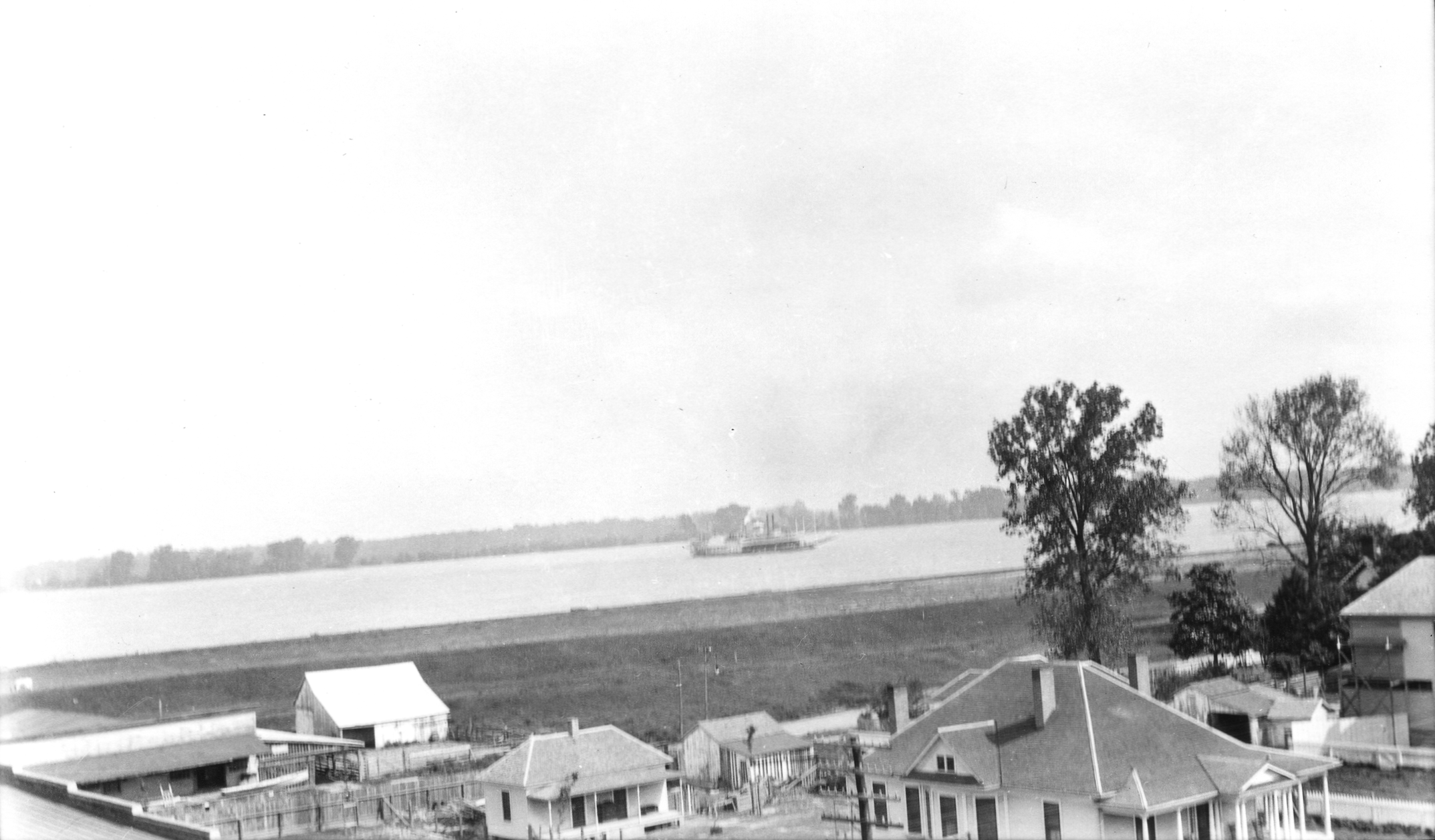 Collection: Painter (Milton McFarland, Sr.) Collection Call Number: PI/1988.0006/Box 557 Folder 1 System ID: 97328. Link to the catalog From Off Court House Str. Lee in distance. Please see our profile page for information on ordering. Scanned as tiff in 2008/03/04 by MDAH. Credit: Courtesy of the Mississippi Department of Archives and History.